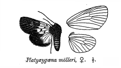 Male Platyzygæna mölleri = Platyzygaena moelleri (Elwes, 1890), upperside and wing venation